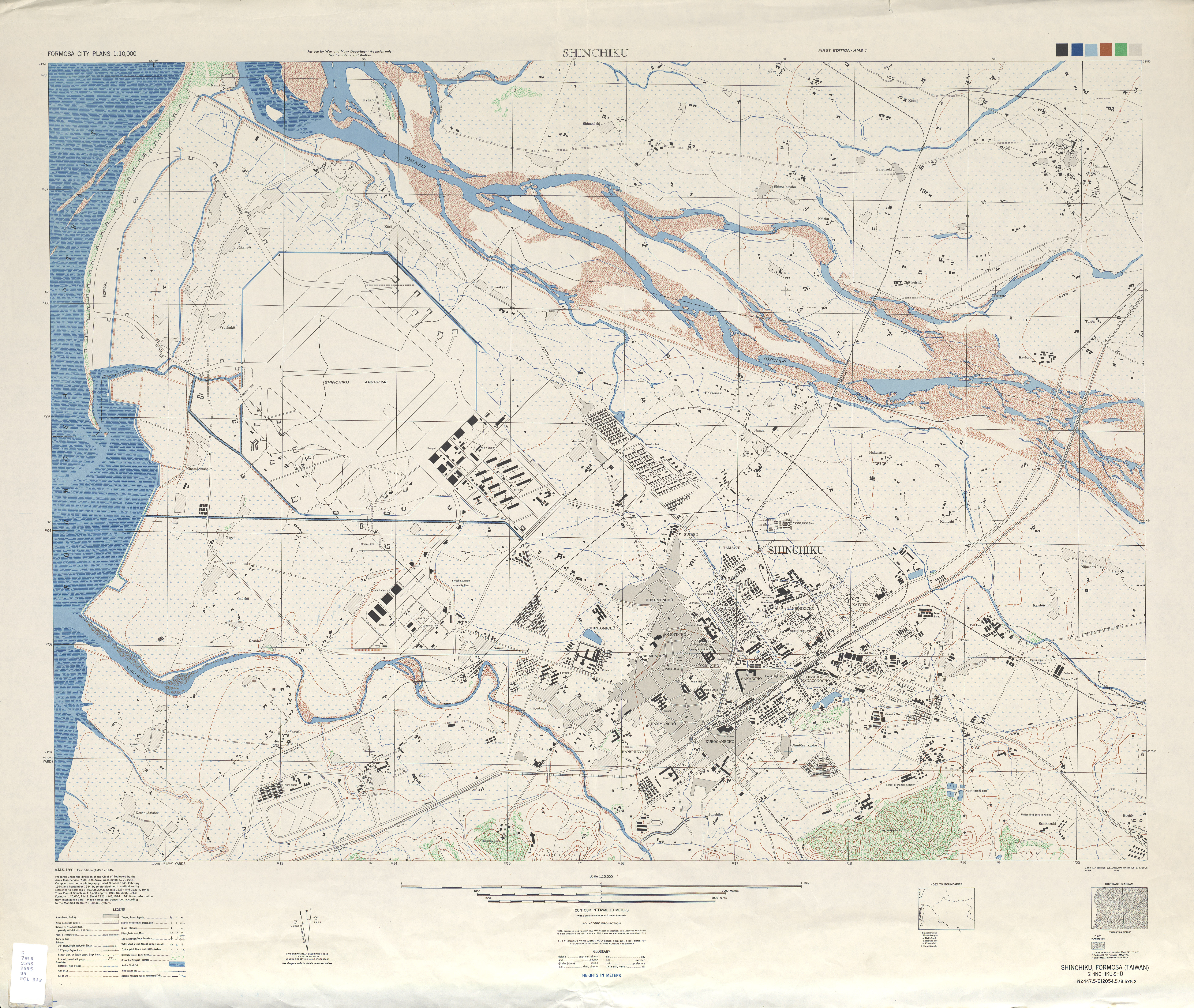 Shinchiku 1:10,000 1945